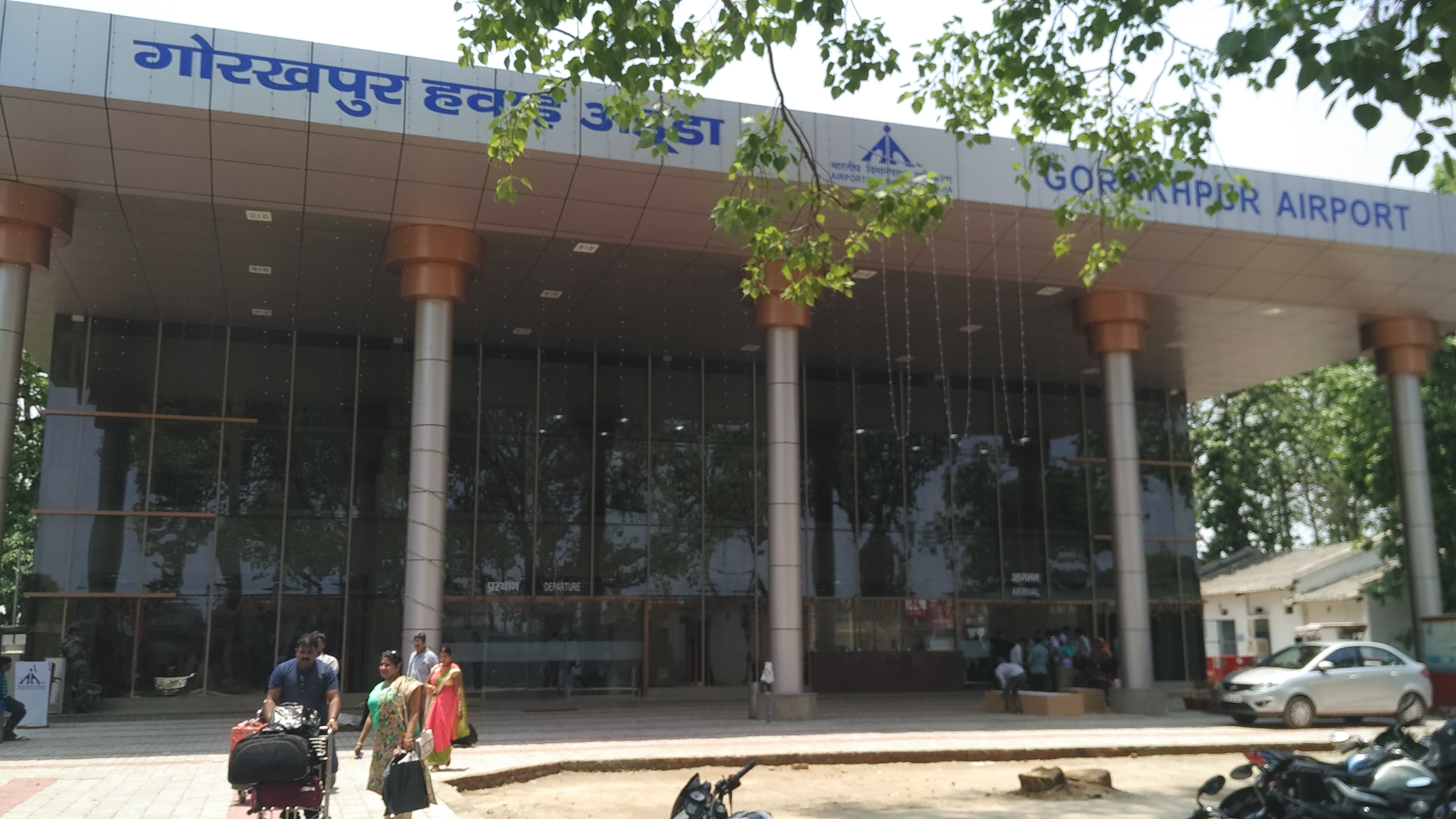 Gorakhpur Airport new terminal building